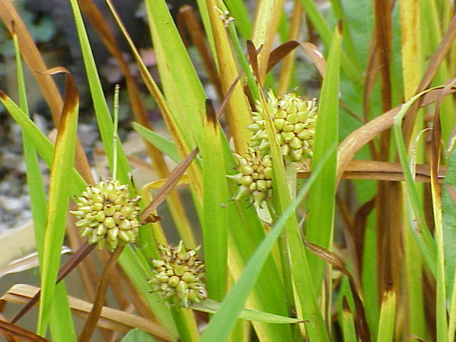 Species: Sparganium erectum Family: Sparganiaceae Image No. 2